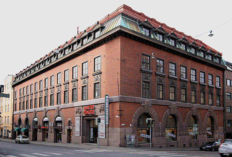 Fredrikinkatu 34 / Kalevankatu 24, Helsinki. Architects: Emil Fabritius, Valter Jung. Built 1914.